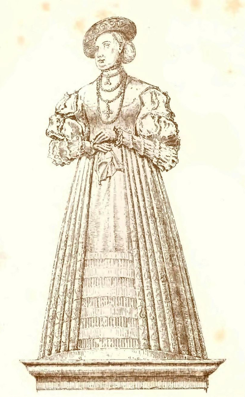 Drawing of the statue of Barbara of Brandenburg at Brzeg Castle